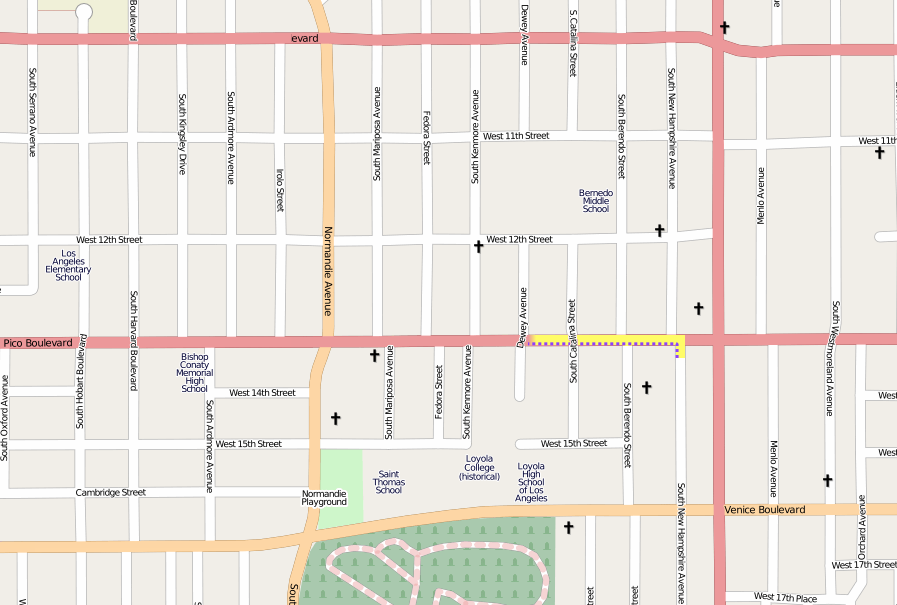 Path taken by Shara Nelson in Massive Attack's Unfinished Sympathy music video: from East to West on West Pico Boulevard between South New Hampshire Avenue and Dewey Avenue in Los Angeles, California.